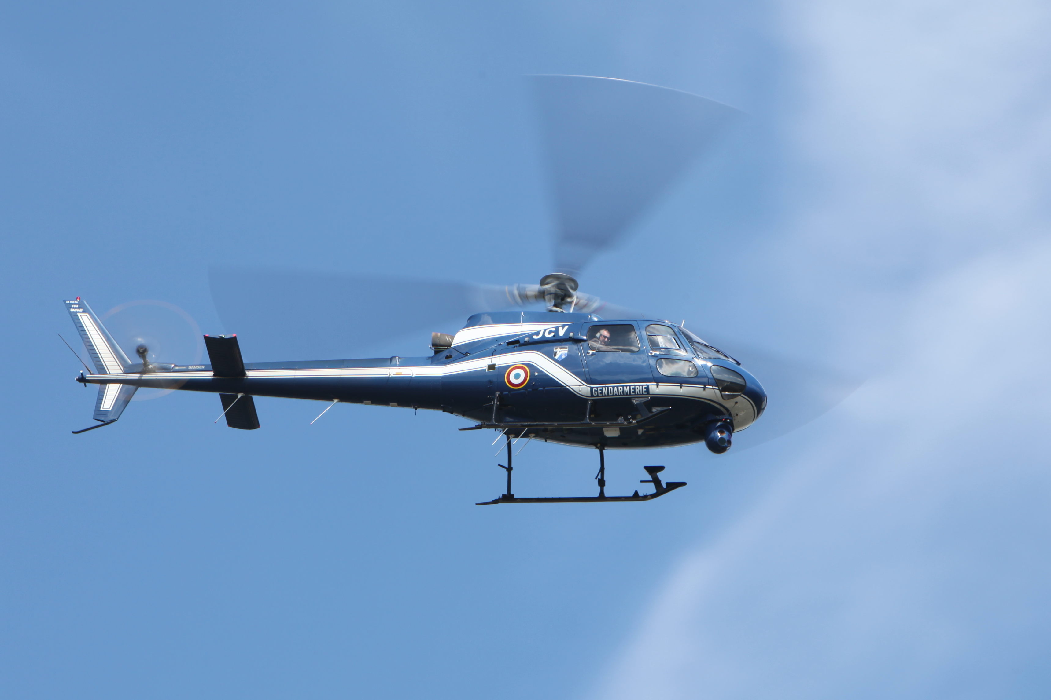 Eurocopter AS350 Ecureuil F-MJCV of the National Gendarmerie at the Eurockéennes de Belfort 2011